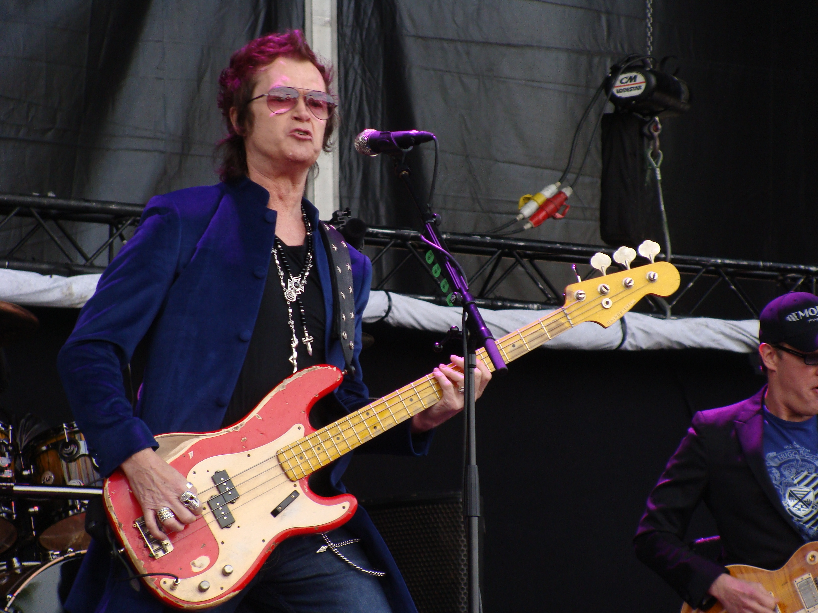 Glenn Hughes of Black Country Communion